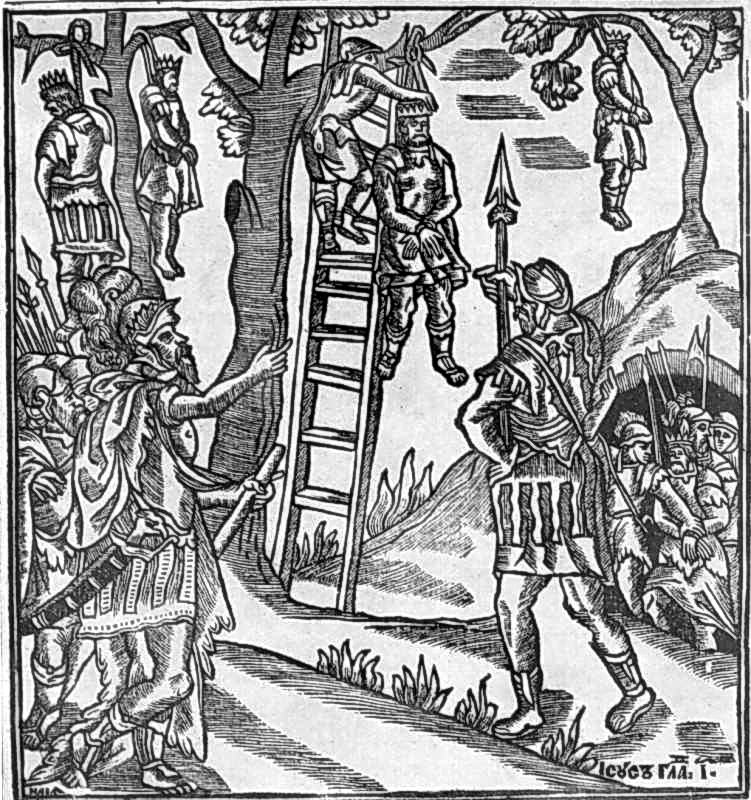 Joshua hangs the defeated kings. From the Bible. 1645, Kyiv, Ukraine.